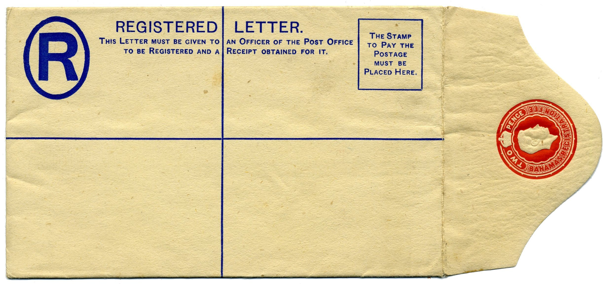 Formular envelope containing stamp for registration but not postage